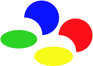 Super Famicom and PAL region Super NES logo